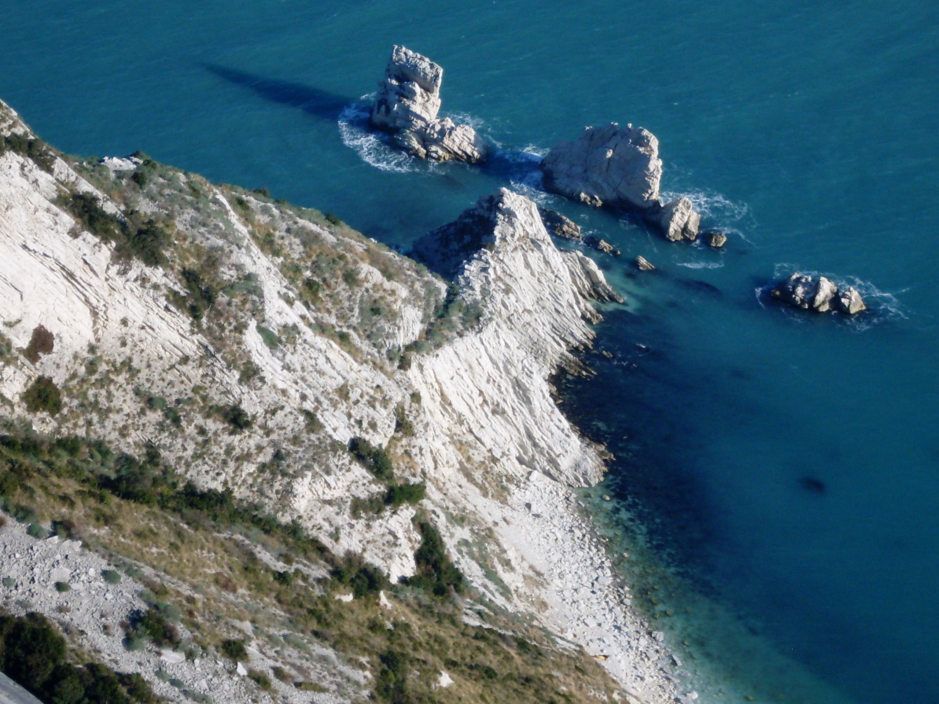 Italy Ancona Mount Conero - Rocks called "The two sisters"